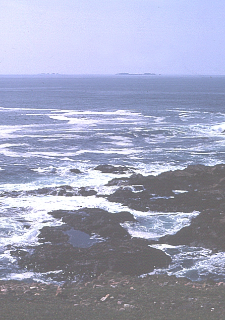 Haskeir and Haskeir Eagach from Griminish Point, North Uist. Note that the Geograph original states that "The Monach Isles can be seen faint on the horizon." However the author may have confused Haskeir (the island on the right of the photo) with 'Heisker', which is another name for the nearby Monachs. The individual stacks of Haskeir Eagach can clearly be seen on the left.